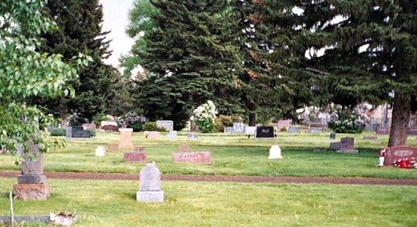 Part of Greenhill Cemetery, as released by image creator RistessonPlace: Laramie, Wyoming